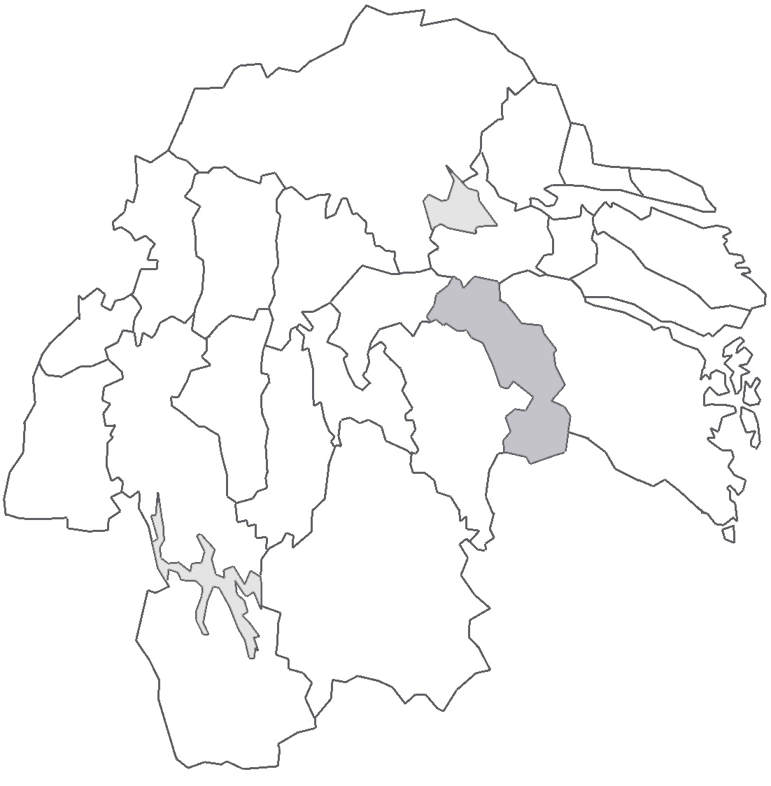 Map describing the location of Slärkind Hundred in Östergötland County, Sweden.